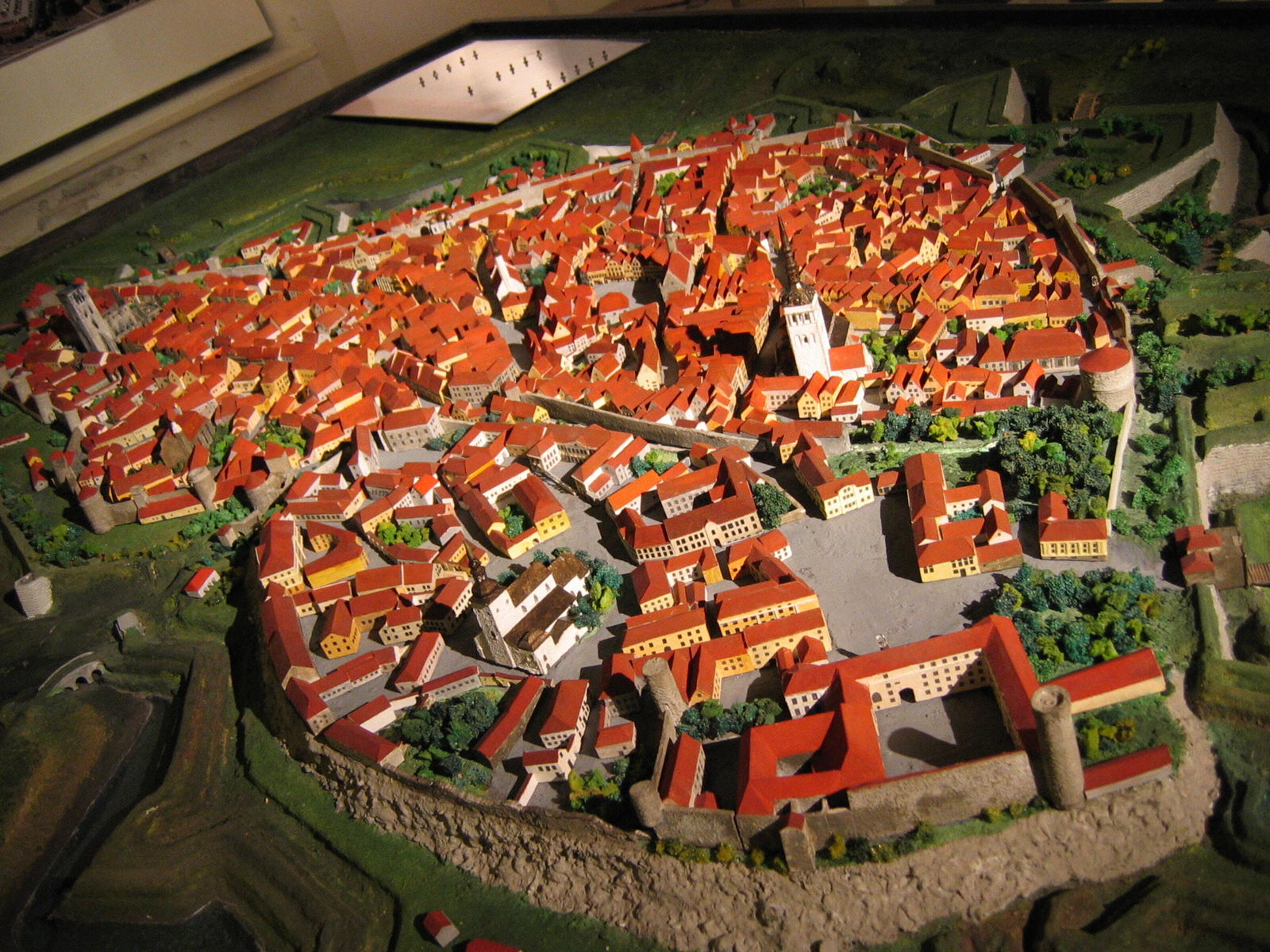 a model of Old Town, seen in the Tallinn City Museum